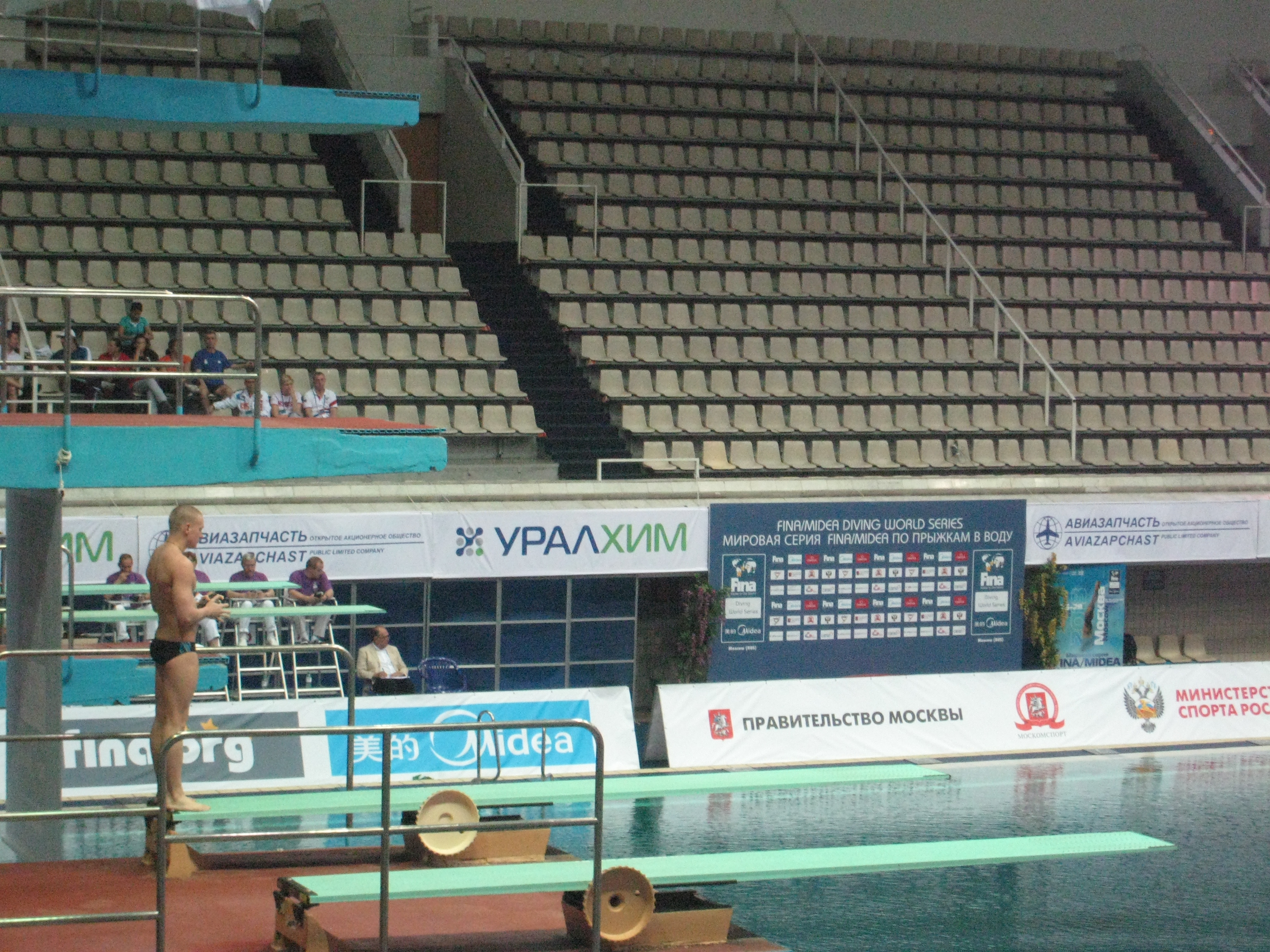 Second day of the 2013 FINA Diving World Series in Moscow. April 27, 2013.